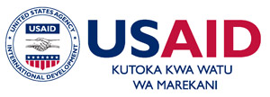 USAID Kutoka Kwa Watu Wa Marekani